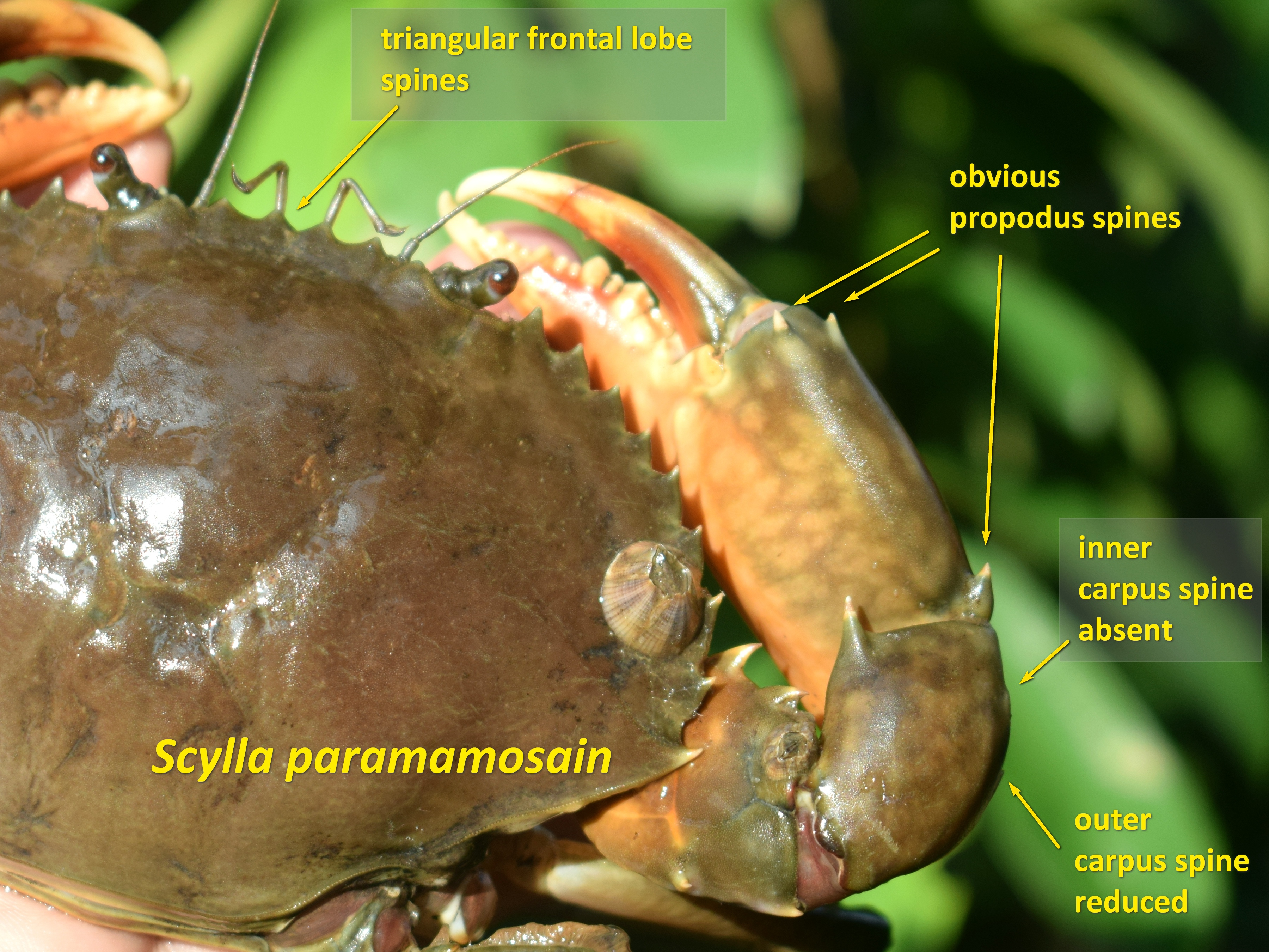 Green mangrove crab Scylla paramamosain; male, 92.0mm CW (carapace width), identification guide. From Jakarta Bay (Segara Jaya, near Marunda), West Java, Indonesia.